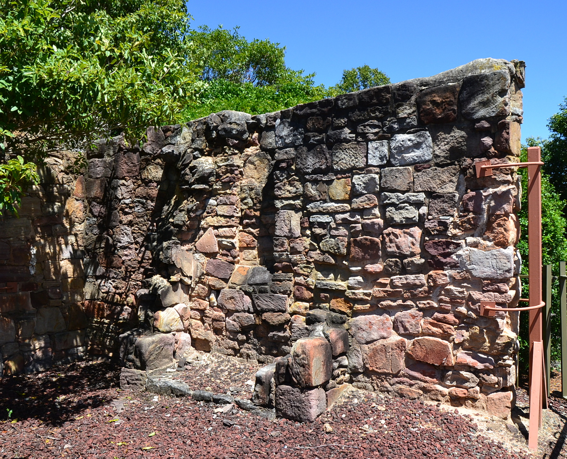 ruins, Blaxland, NSW, Australia